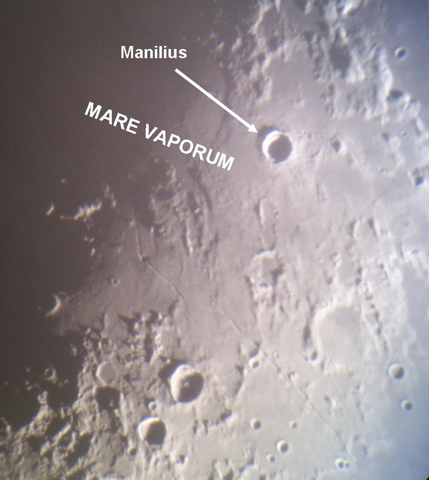 Crater Manilius as taken by Eric S. Kounce of the West Texas Astronomers ( at the McDonald Observatory's 36-inch Telescope.